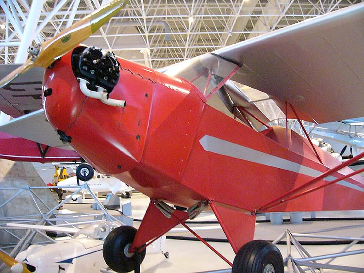 Taylor E-2 Cub C-GCGE in the Canada Aviation Museum, Rockcliffe Airport, Ottawa, Ontario